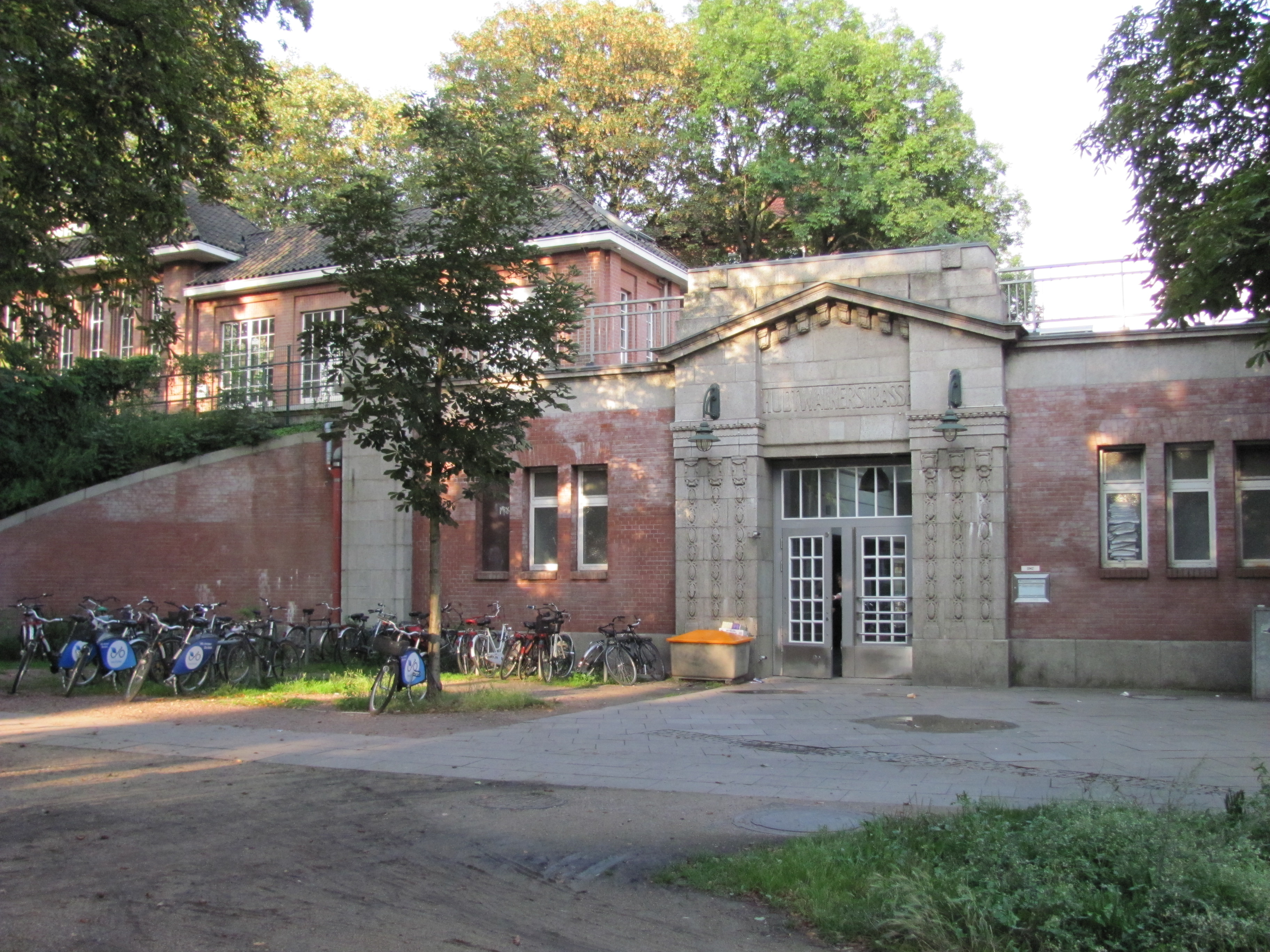 U-Bahn station Hudtwalckerstraße in Hamburg, Germany